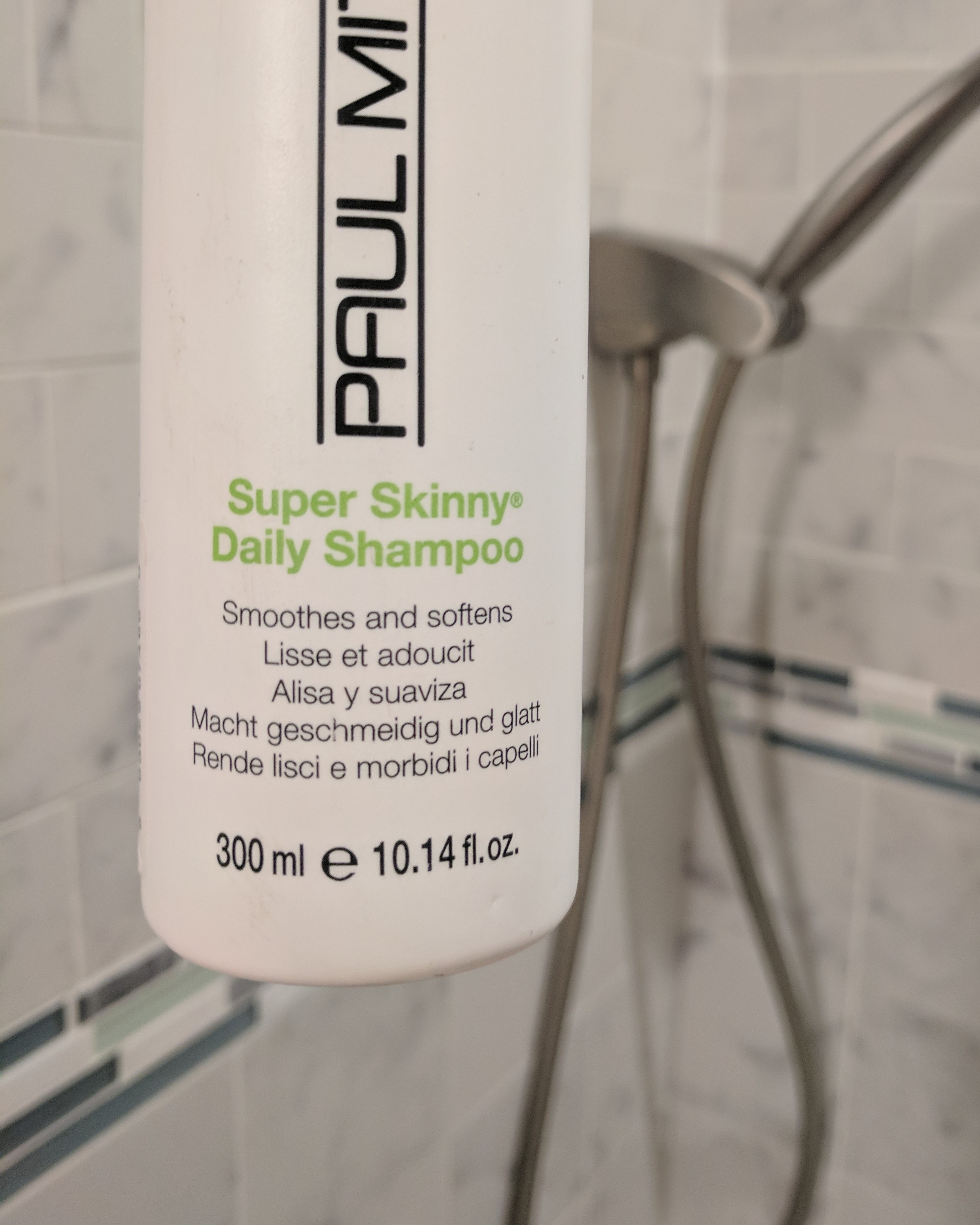 A Paul Mitchell brand shampoo with the lower portion of the bottle in focus.